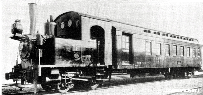 Sigu1 class steam railcar of the Chosen Government Railway.